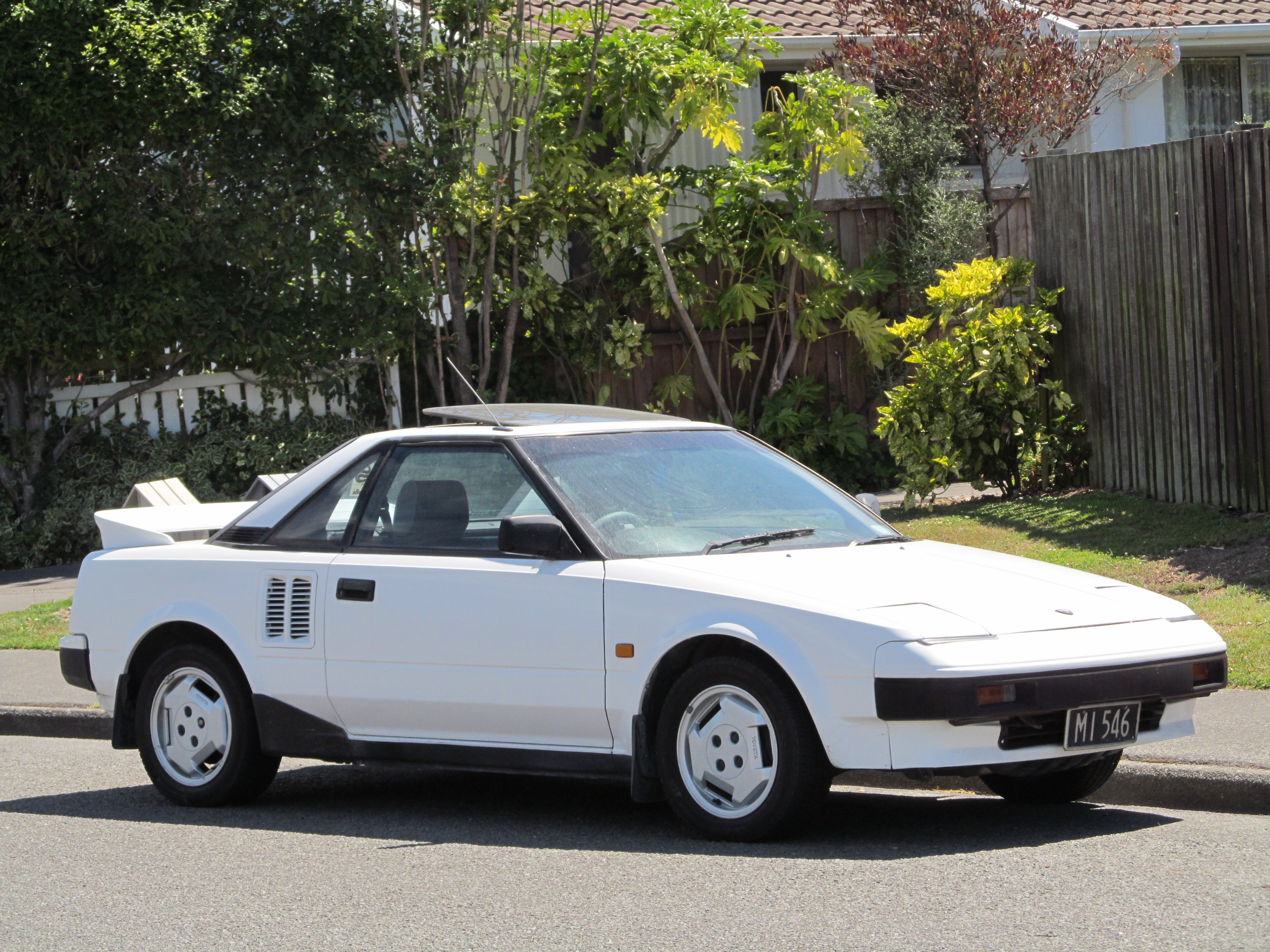 MI546 Here's easily the best MR2 I've ever seen - it was totally original and absolutely mint, and likely worth a fair bit as well...